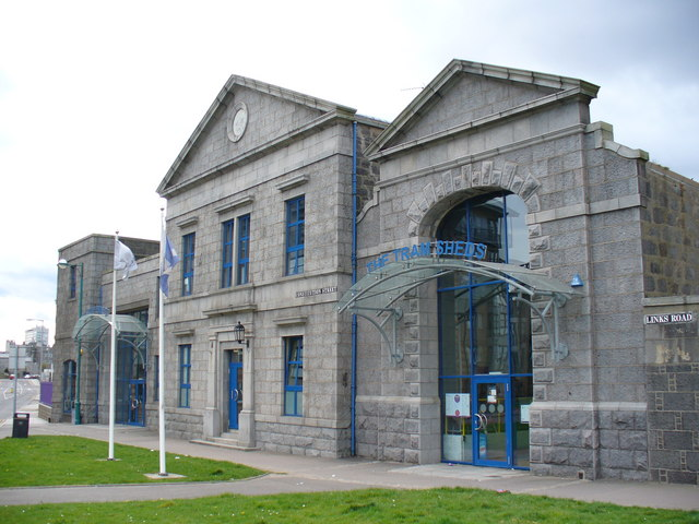 Satrosphere, Links Road Science Museum, formerly located in Justice Mill Lane beside the Odeon. Today it is in one of the old Aberdeen Corporation Transport granite tram sheds. The other sheds were at Mannofield and at the northern end of Victoria Bridge.